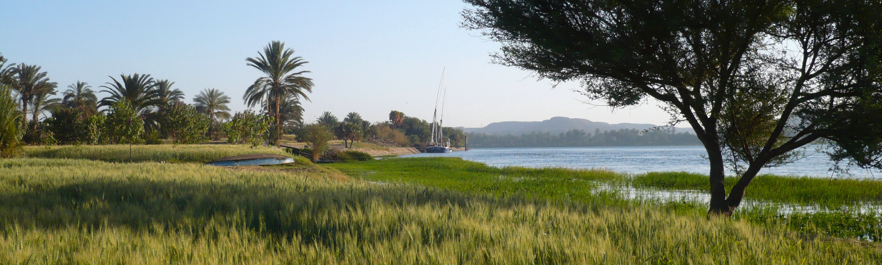 Peacefull riverbank after sunrize in egypt